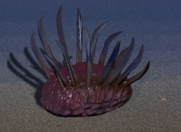 Wiwaxia